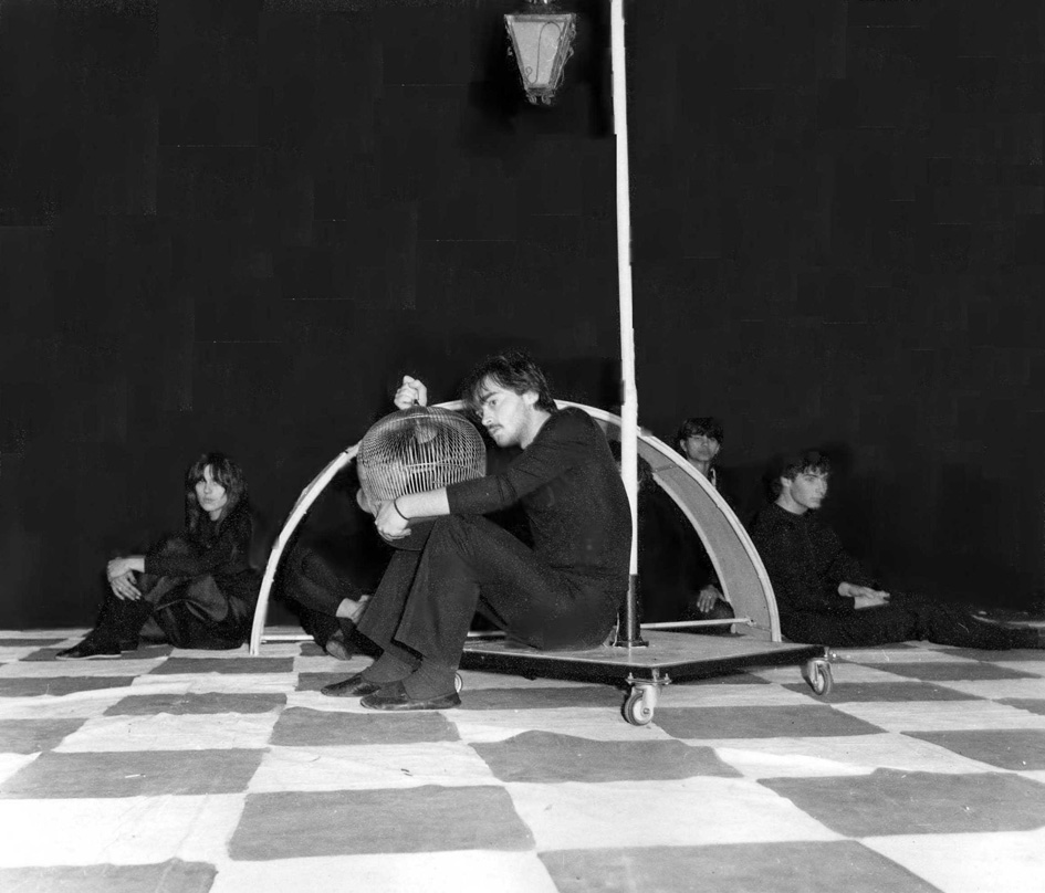 Hamletmachine by Heiner Müller, directed by Macedonian theatre director Bore Angelovski